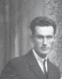 Georgy Tsanev, Zlatorog, 1925-1927.